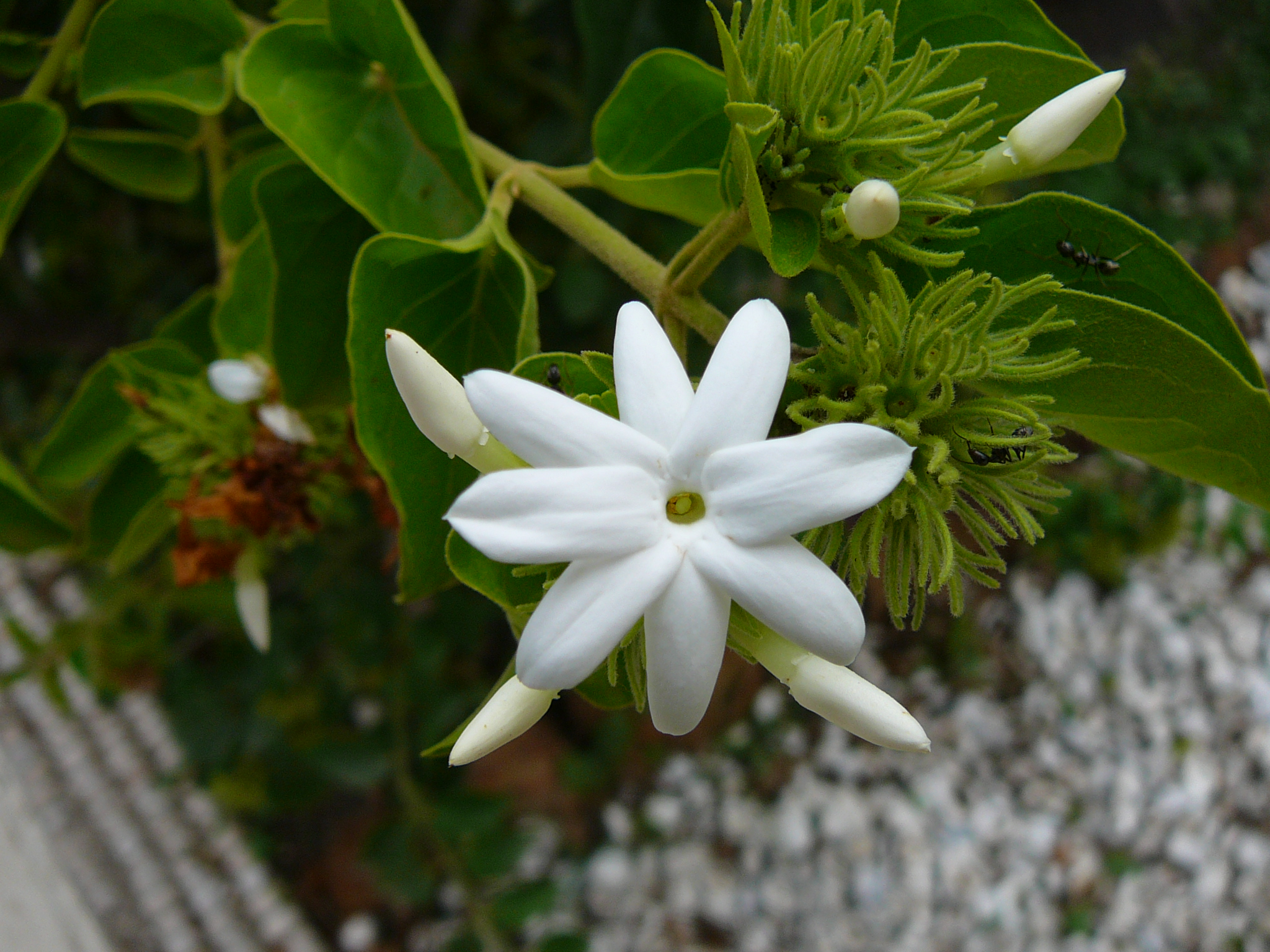 Downy Jasmine